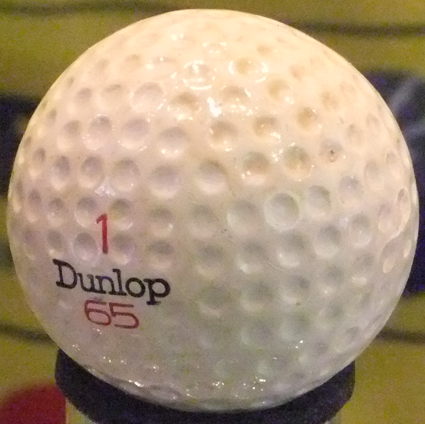 Tony Jacklin's golf ball used in the 1969 Ryder Cup held at Royal Birkdale Golf Club. On display at the Museum of Liverpool, England.